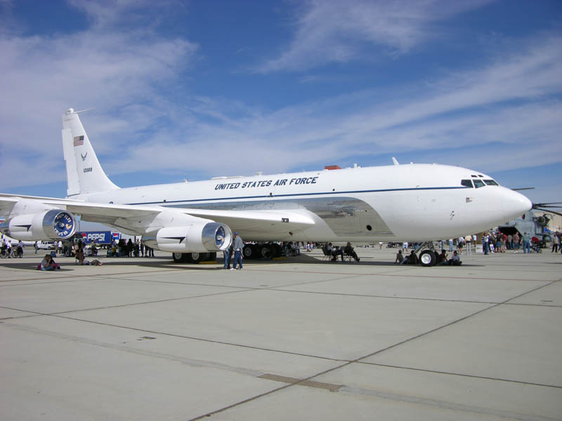 Boeing C-135C Speckled Trout at the 2006 Edwards AFB open house